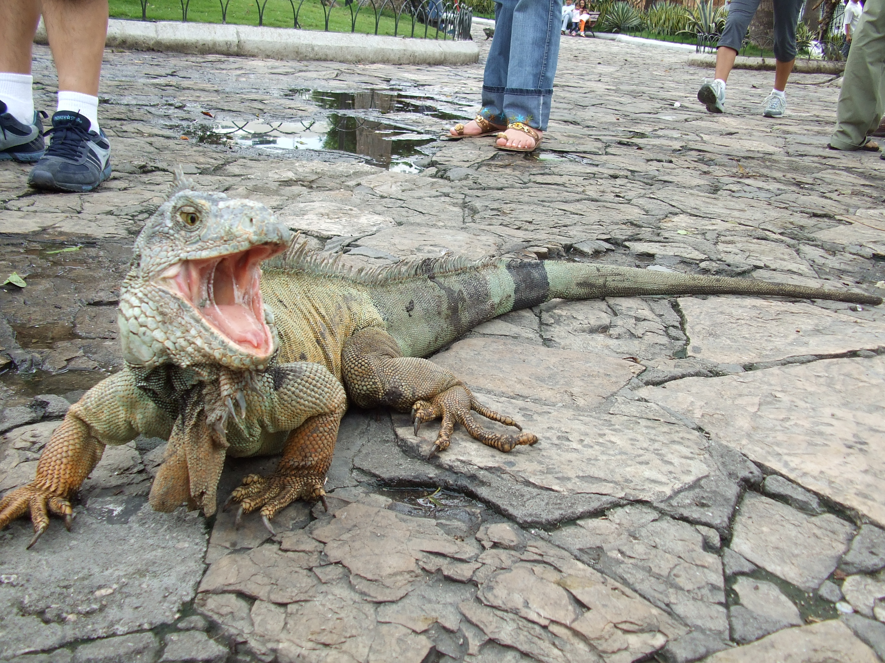 Ecuador - Guayaquil - Parque seminario Parque de las iguanas. Iguanas libres en el parque